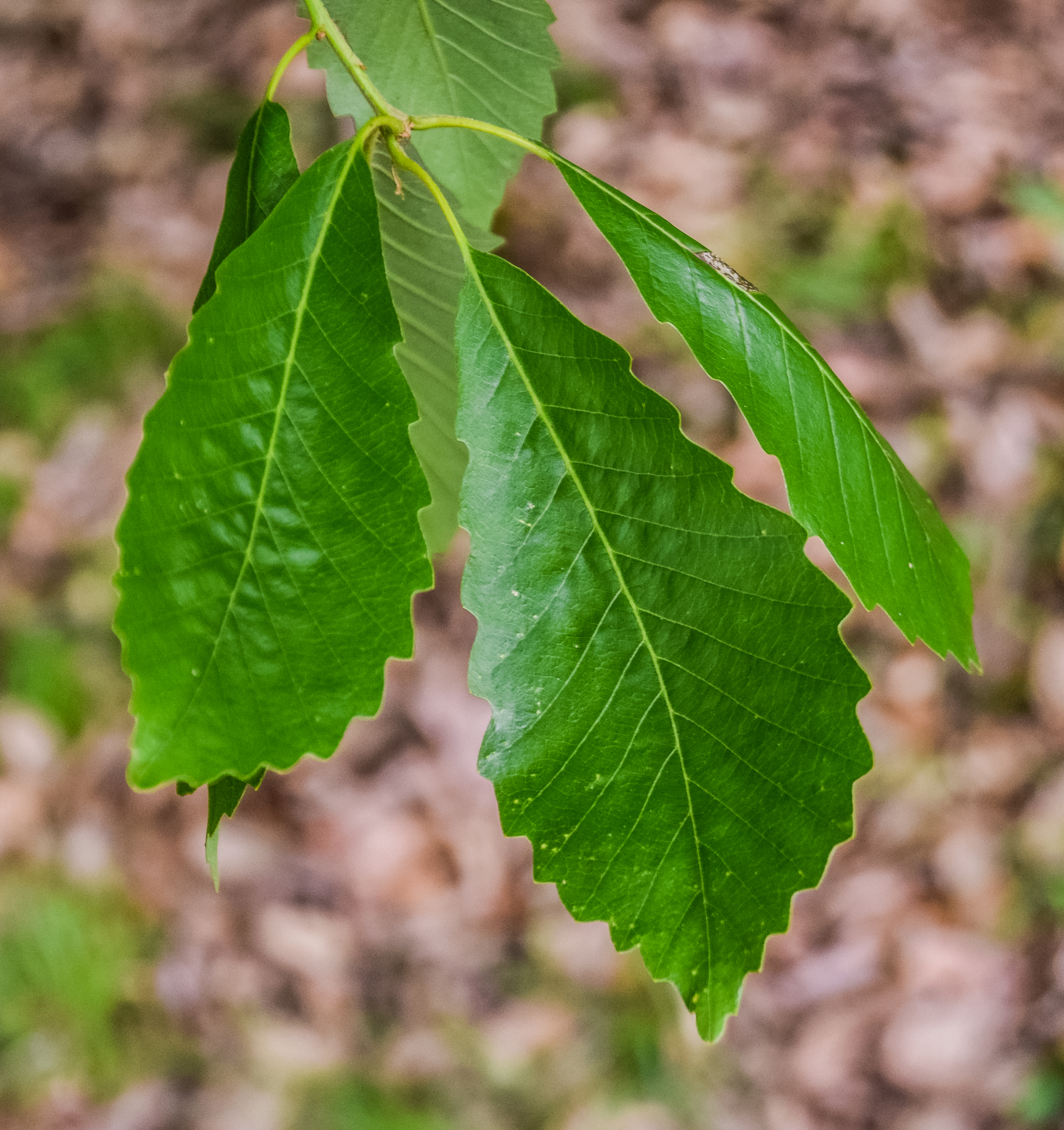 Quercus aliena in Hackfalls Arboretum, Gisborne Region, New Zealand